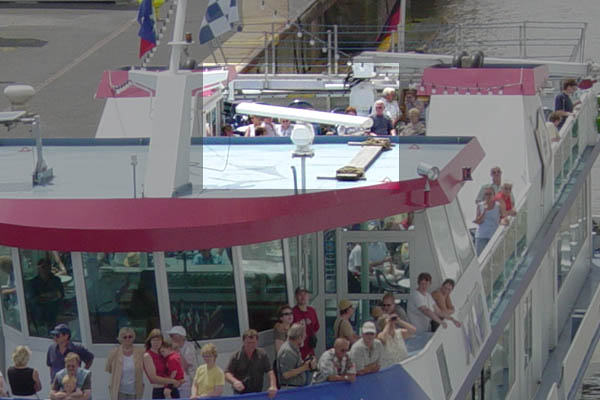 Slotted waveguide radar antenna. Image by User:Leonard G.